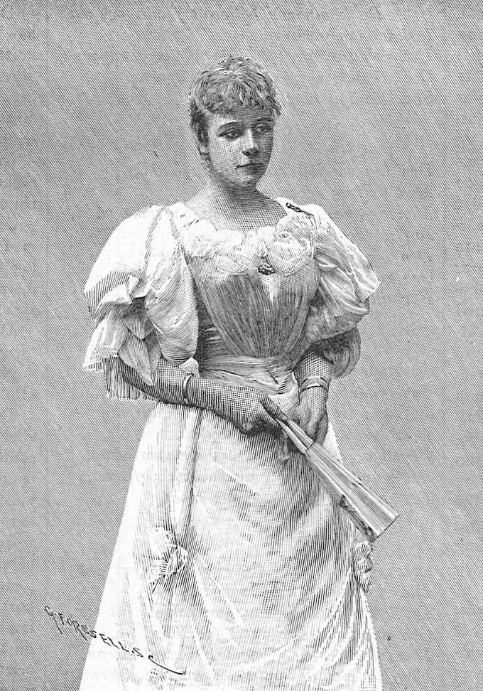 Tora Hwass (1861-1918)